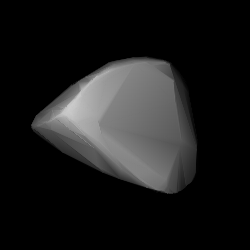 3D convex shape model of 19848 Yeungchuchiu, computed using light curve inversion techniques. J. Hanuš, J. Ďurech, M. Brož, B. D. Warner (June 2011). "A study of asteroid pole-latitude distribution based on an extended set of shape models derived by the lightcurve inversion method". Astronomy and Astrophysics 530: A134. ISSN 0004-6361. arXiv